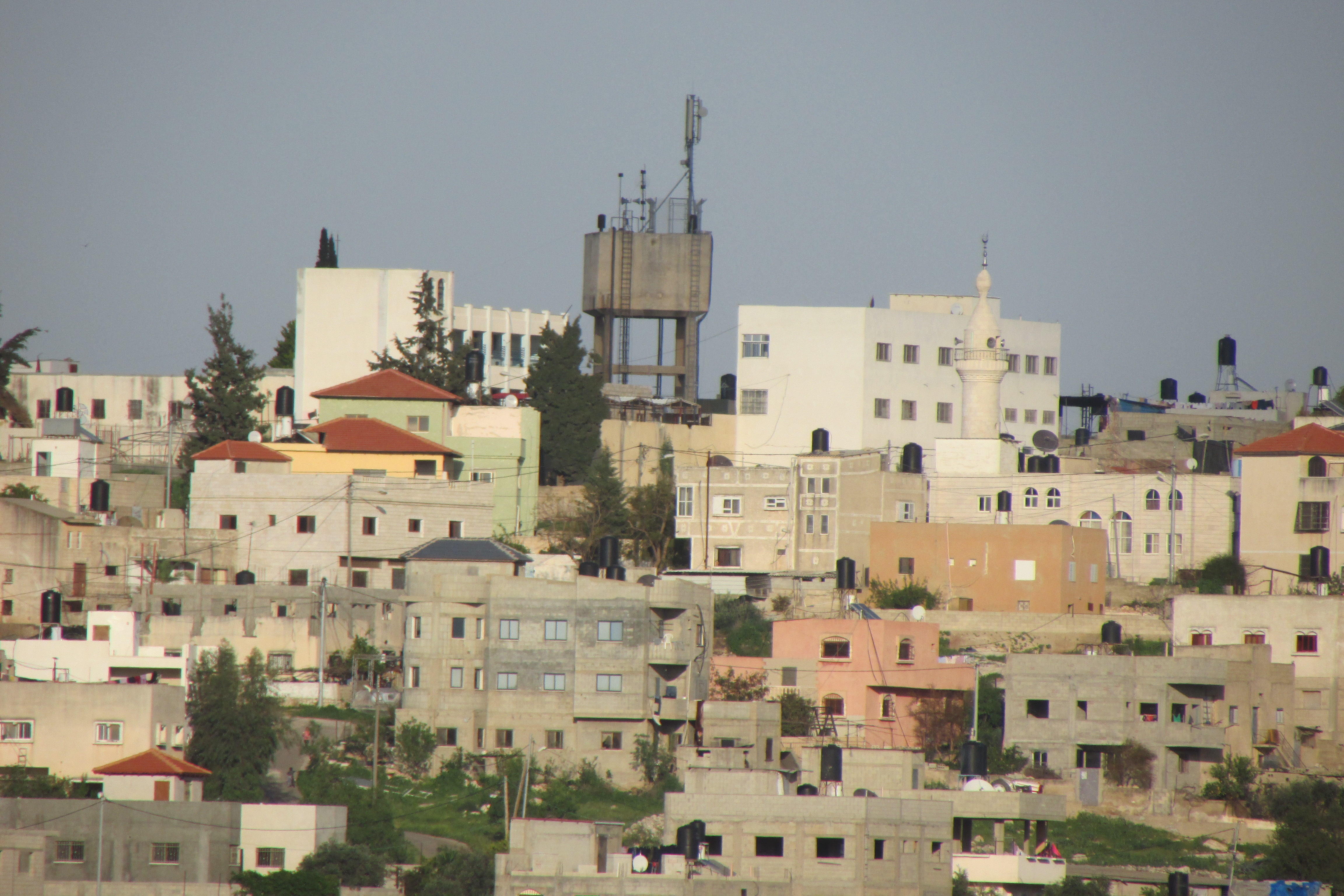 Jayyous viewed from Tzofim